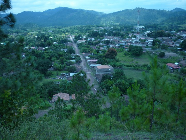 Salama View of the town